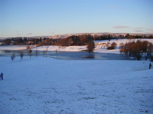 snow,winter,lenzie,december 2010,trees,frozen,loch,ice,gadloch,flooding,flooded,golf,course,golfcourse